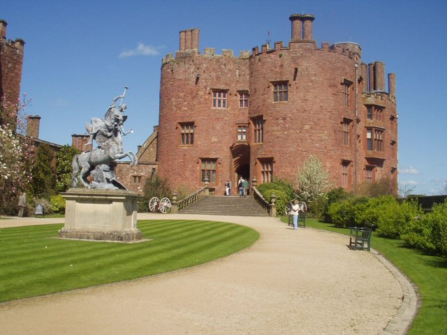 Powis Castle from the courtyard